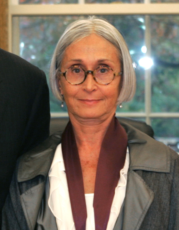 The image of American dancer/choreography Twyla Tharp, 2004 National Medal of Arts Recipient.